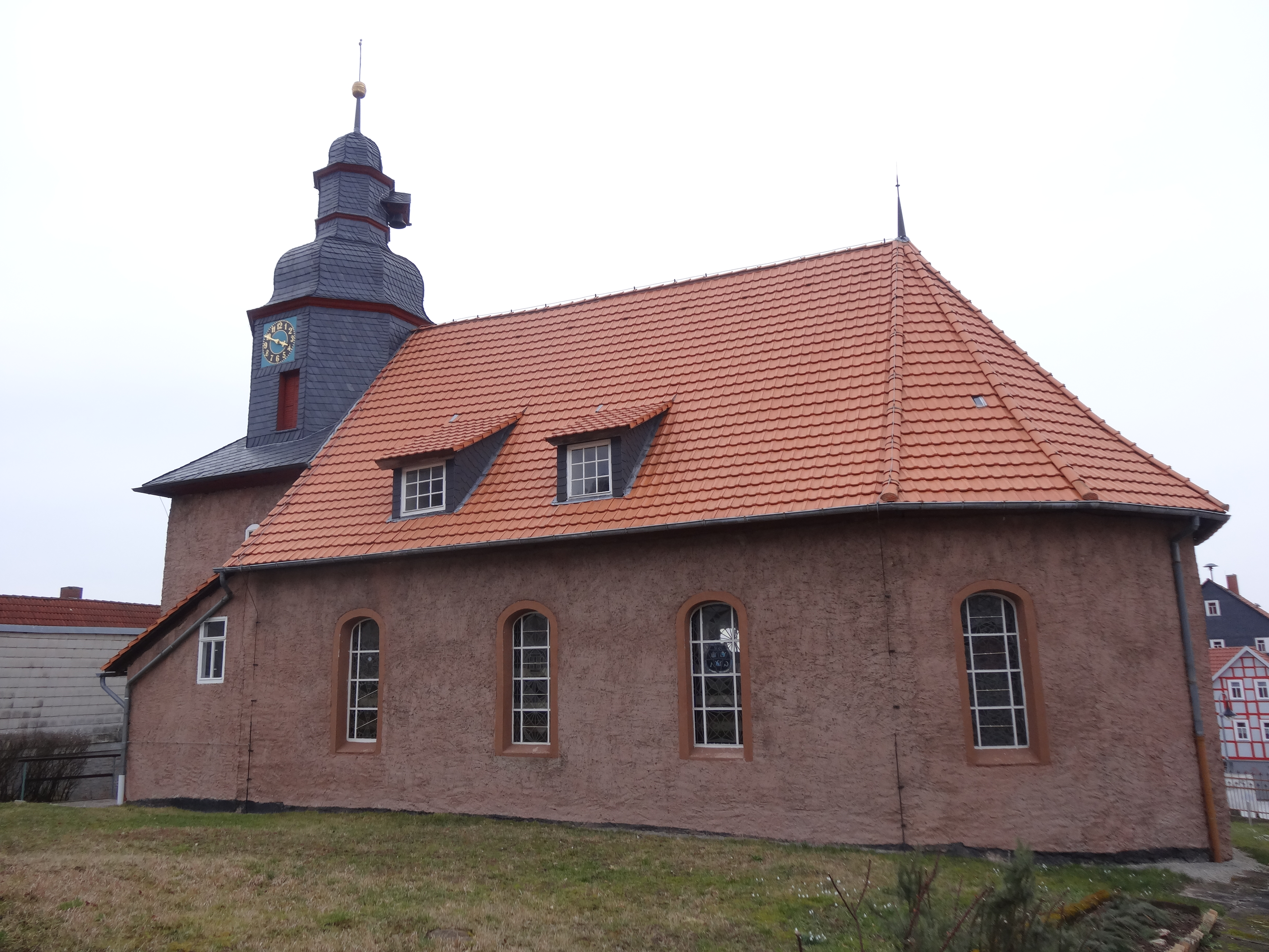 Church in Rüdigershagen, Thuringia, Germany